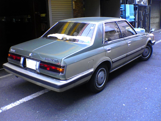 1980-1984 Toyota Cresta (X50/X60).